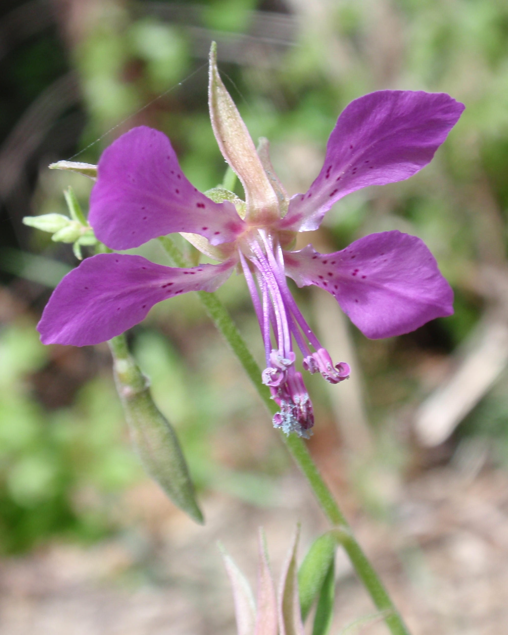 Clarkia rhomboidea near Bass Lake, Madera County, California, USA.